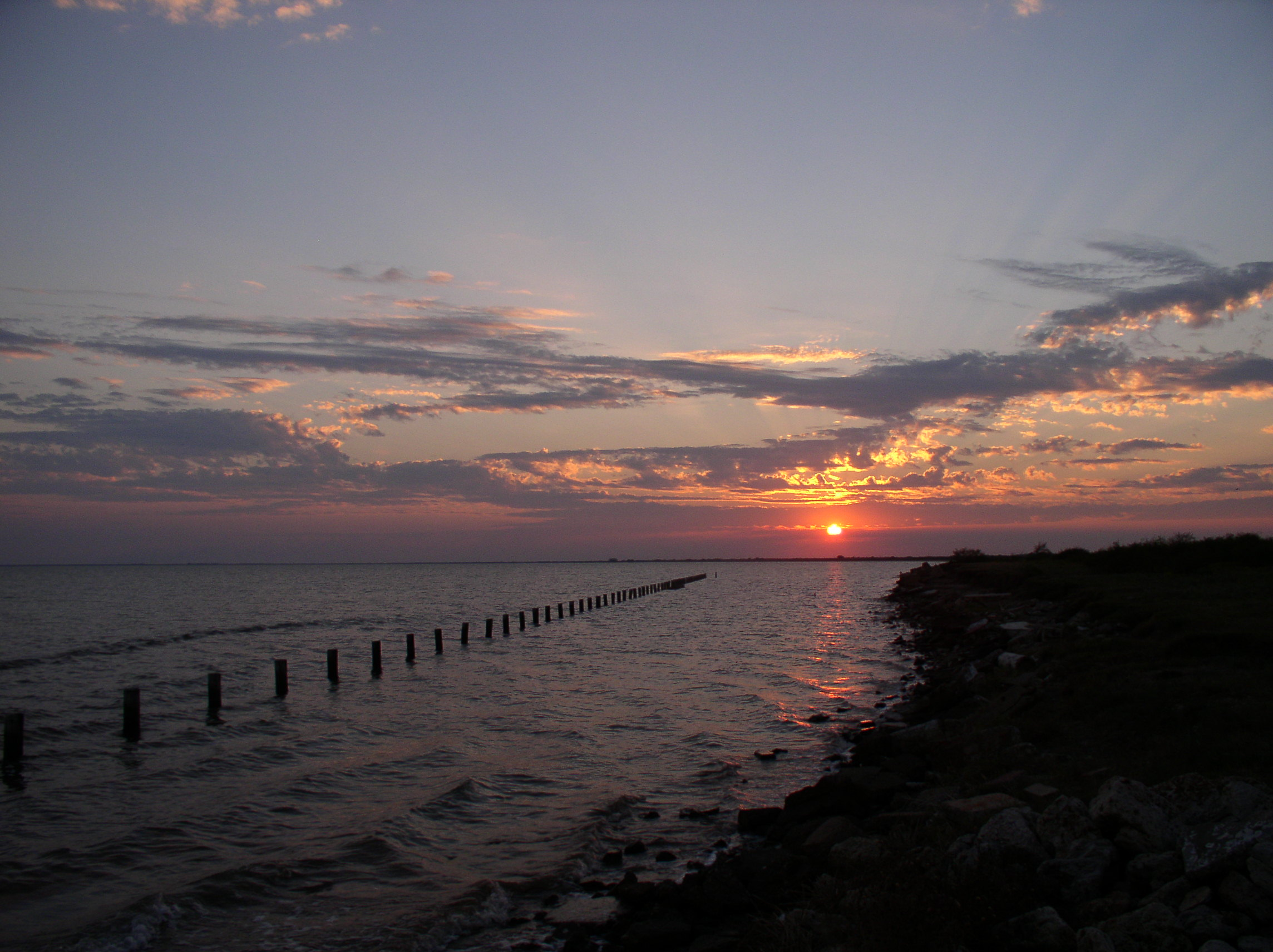 Boat ramp at Jensen Pt near Matagorda, TX close to sunset.